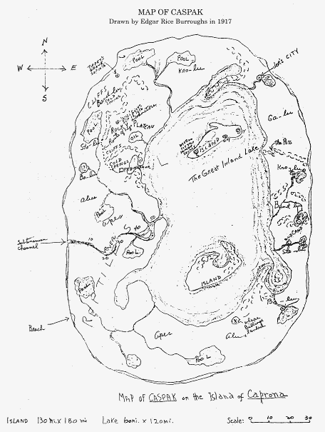 Original map of Caprona, drawn by Burroughs for his Caspak trilogy.